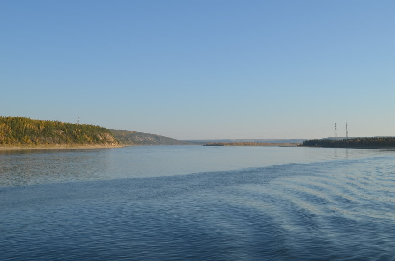 This photos are made during cruise Yakutsk — Lеnskiye Shchyoki, Lena Cheeks — Yakutsk (with arrival in Mirny), 05.09−17.09.2016